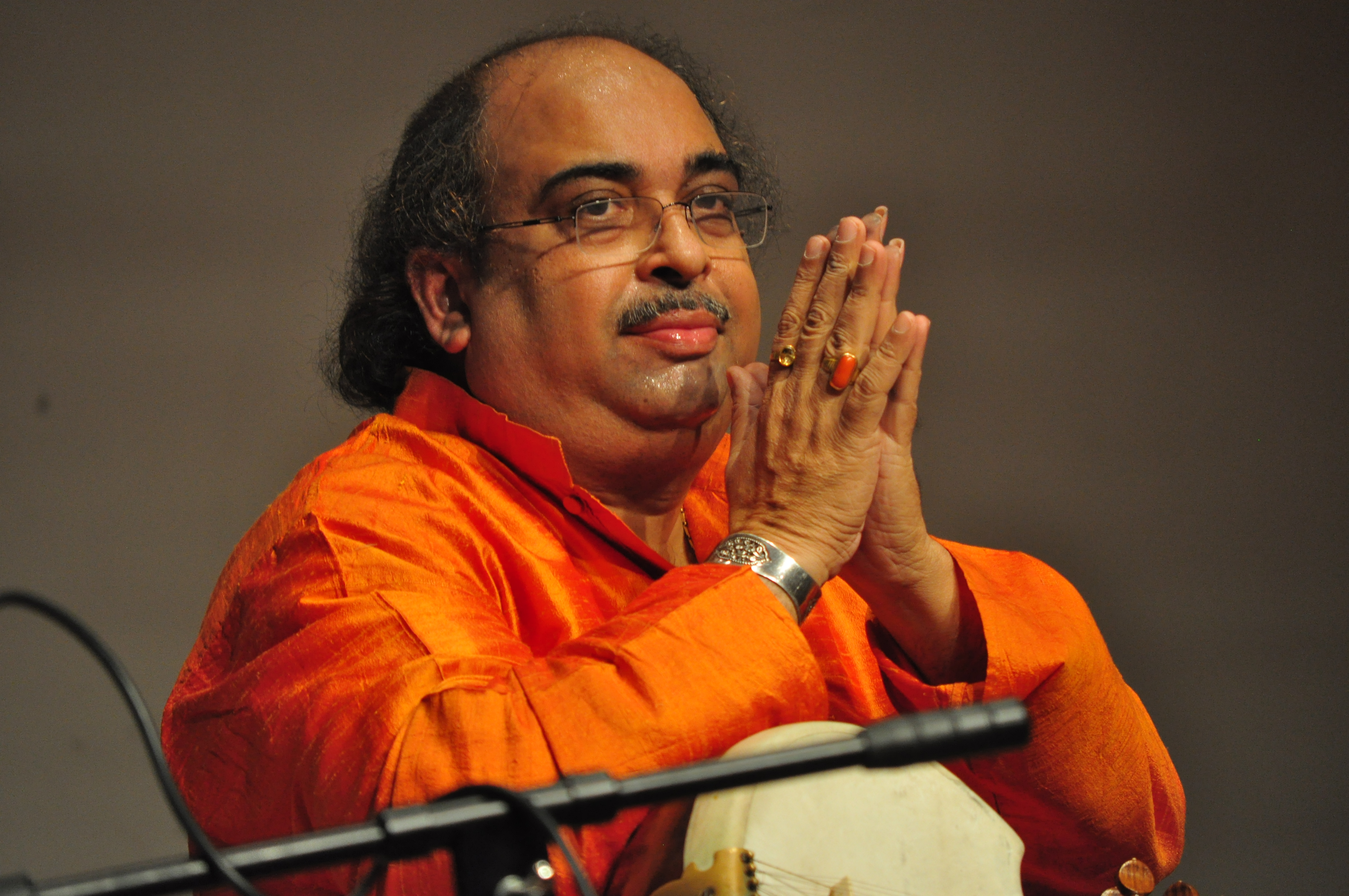 Sarodist Pandit Tejendra Narayan Majumdar performing at Eastside Baha'i Center, Bellevue, Washington, October 14, 2014. Concert presented by the Anindo Chatterjee Institute of Tabla and University of Washington Bothell SPICMACAY.